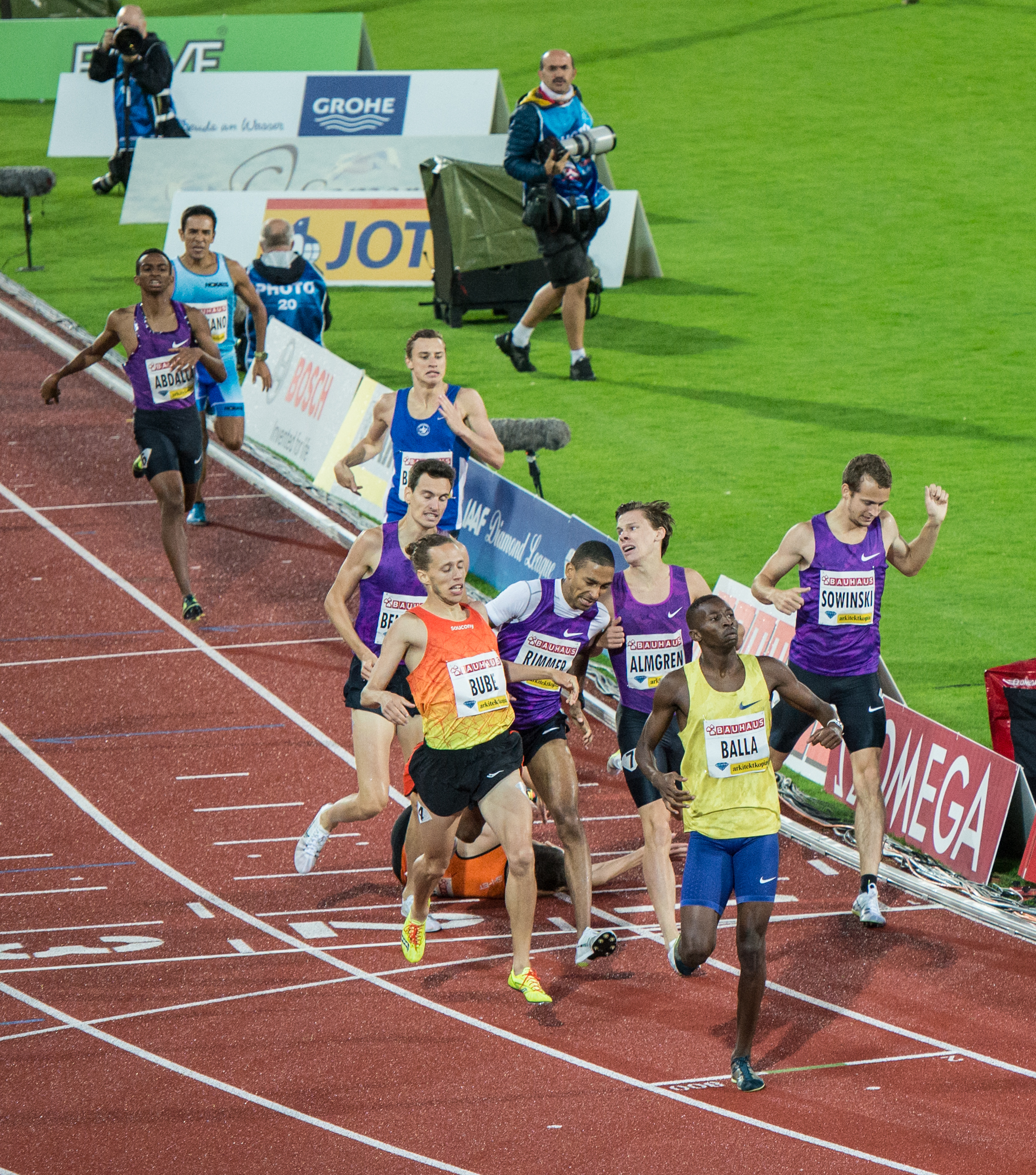 Diamond League (Bauhaus-galan) at the Stockholm Stadium on July 30, 2015.